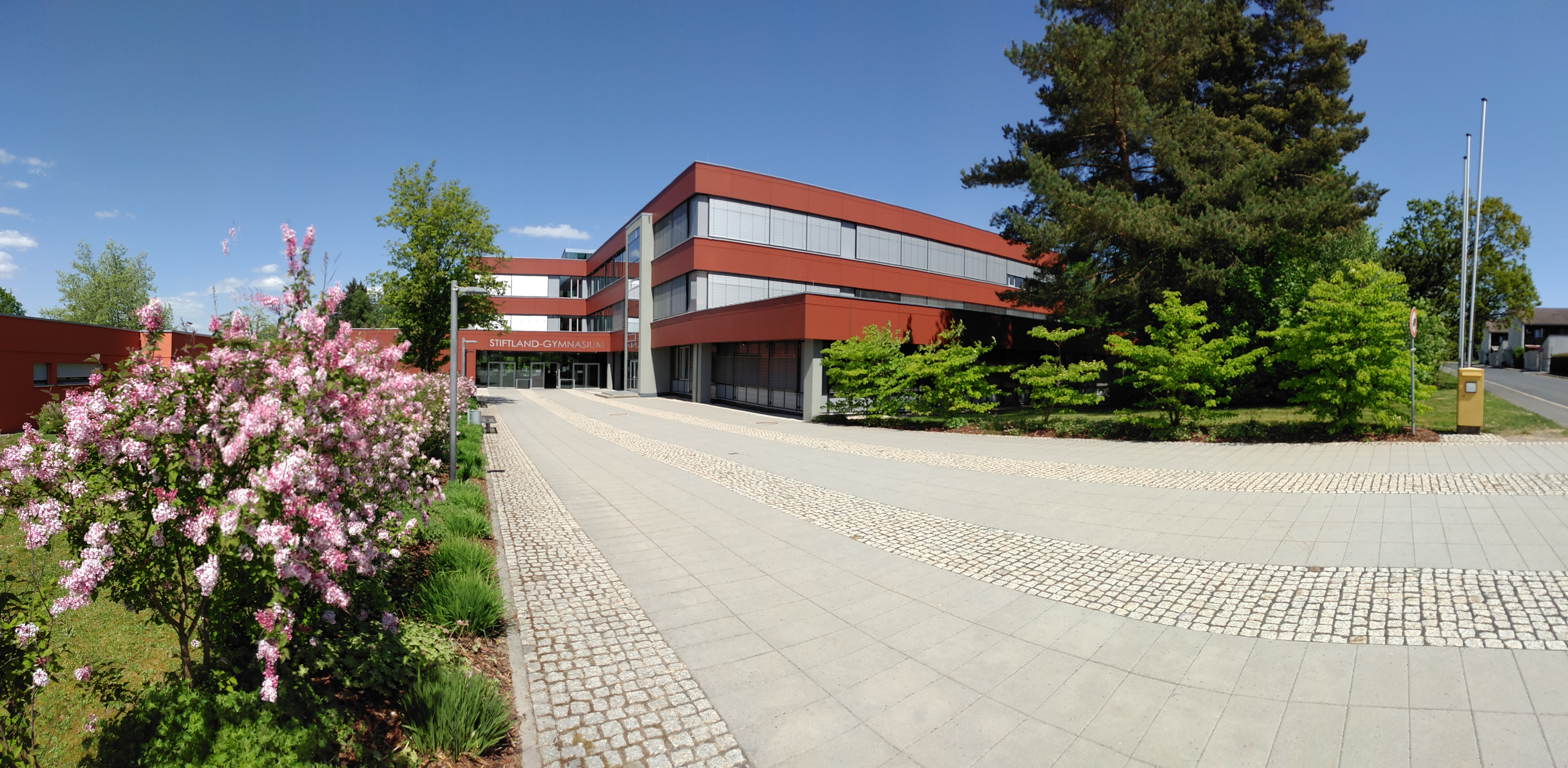 panoramic view of Stiftland-Gymnasium Tirschenreuth as seen from Stiftlandring